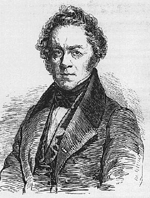 Picture of Peter Josef von Lindpaintner